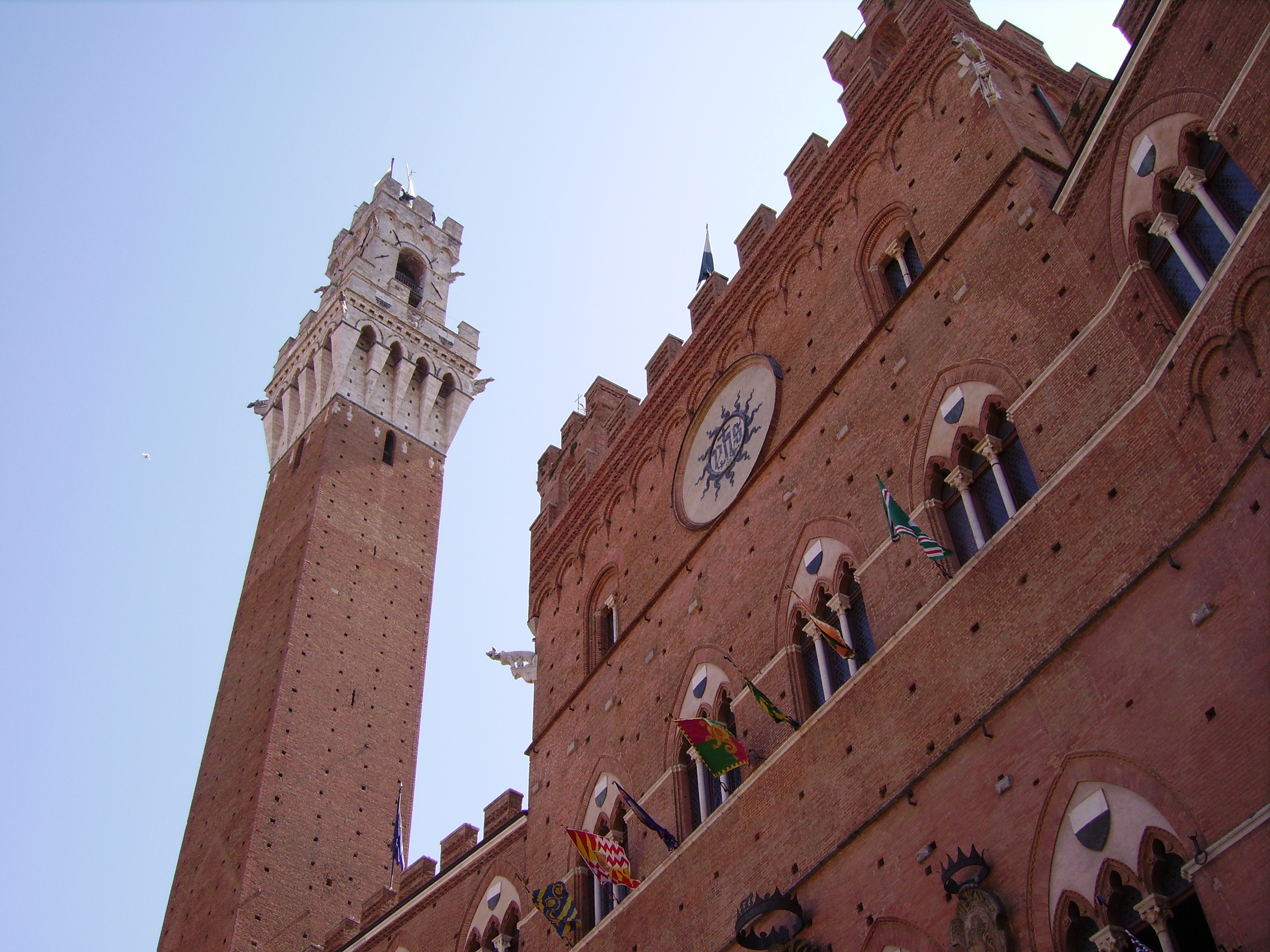 Streets of Siena